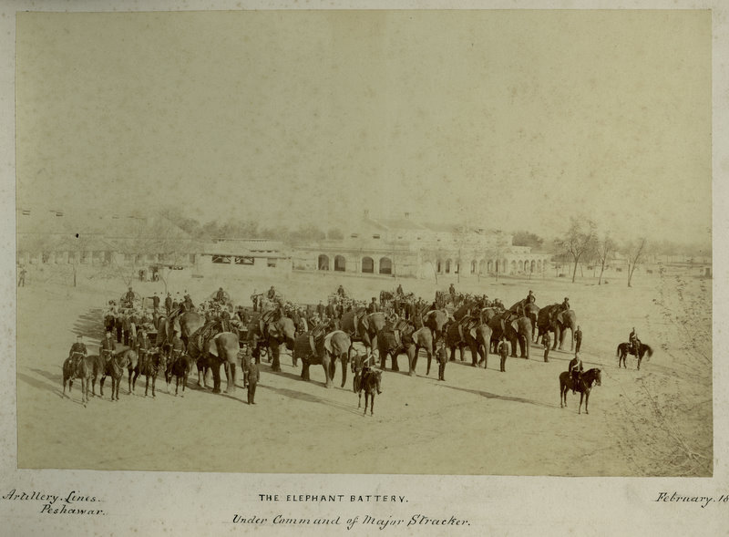 The Elephant Battery in Peshawar - 1880's